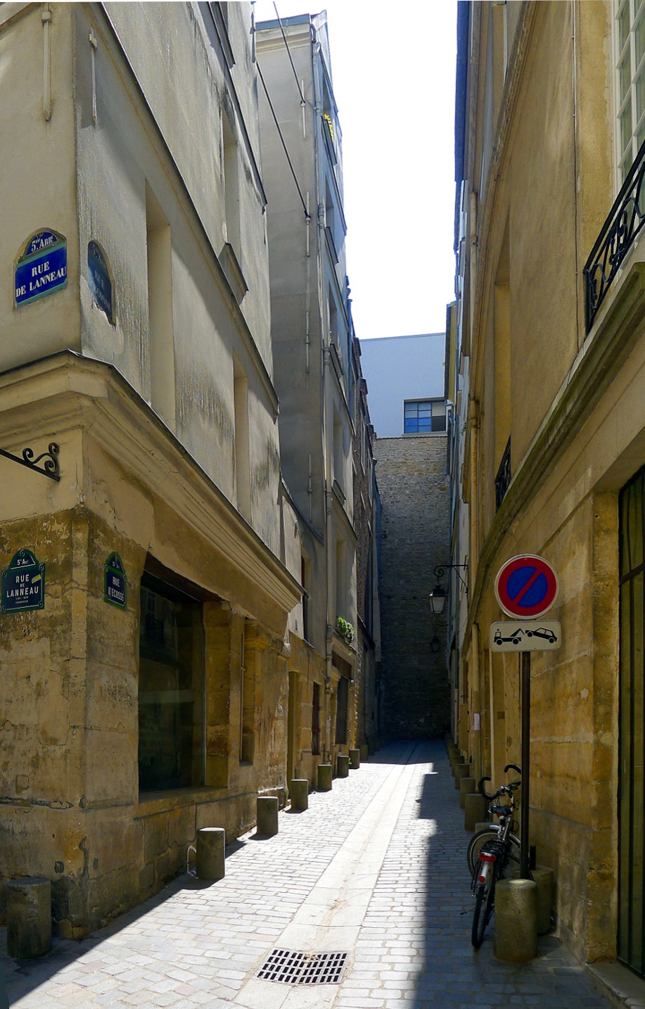 Ecosse street - Paris